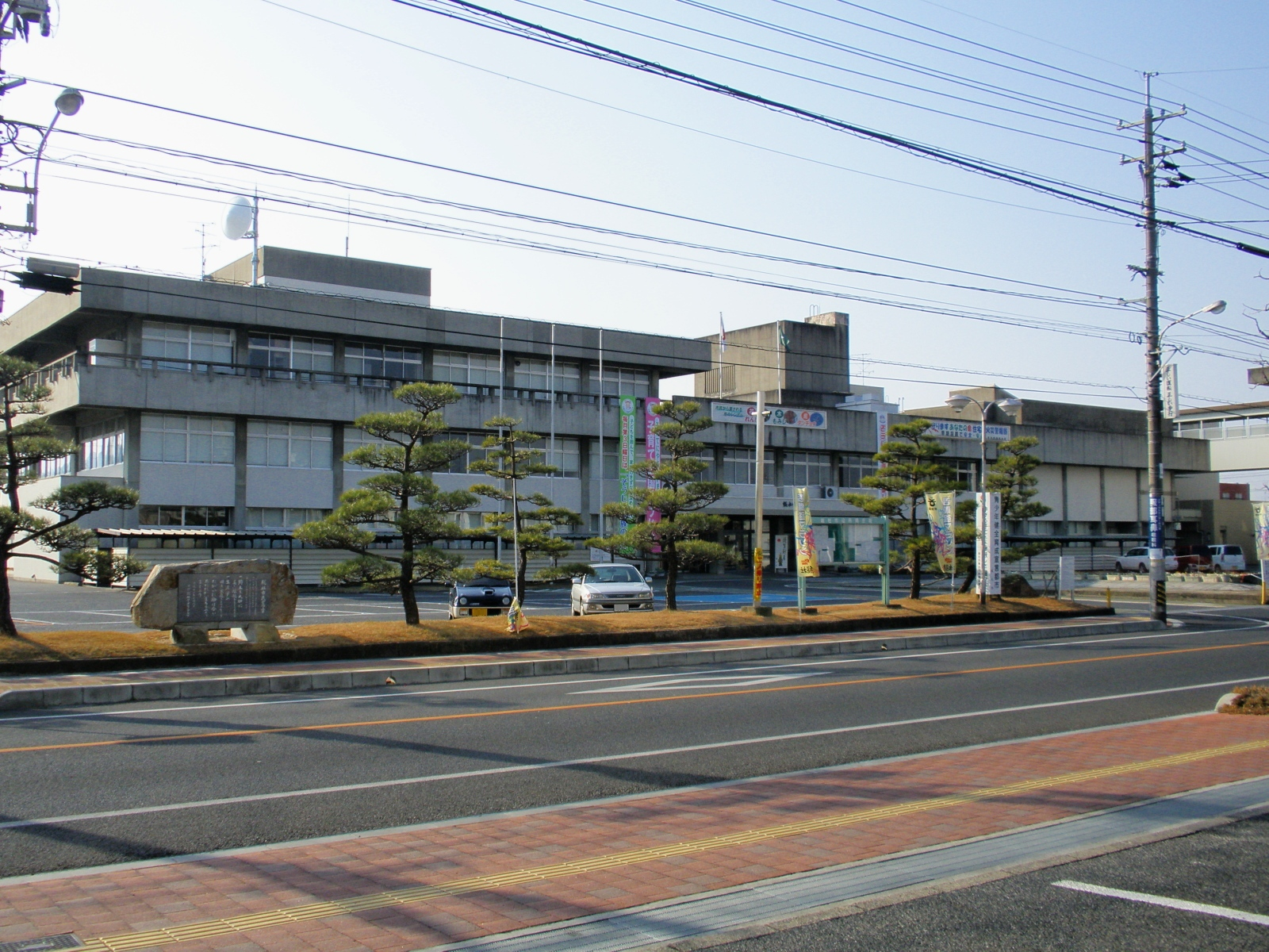 Sōja city office main building (Since September, 1969)